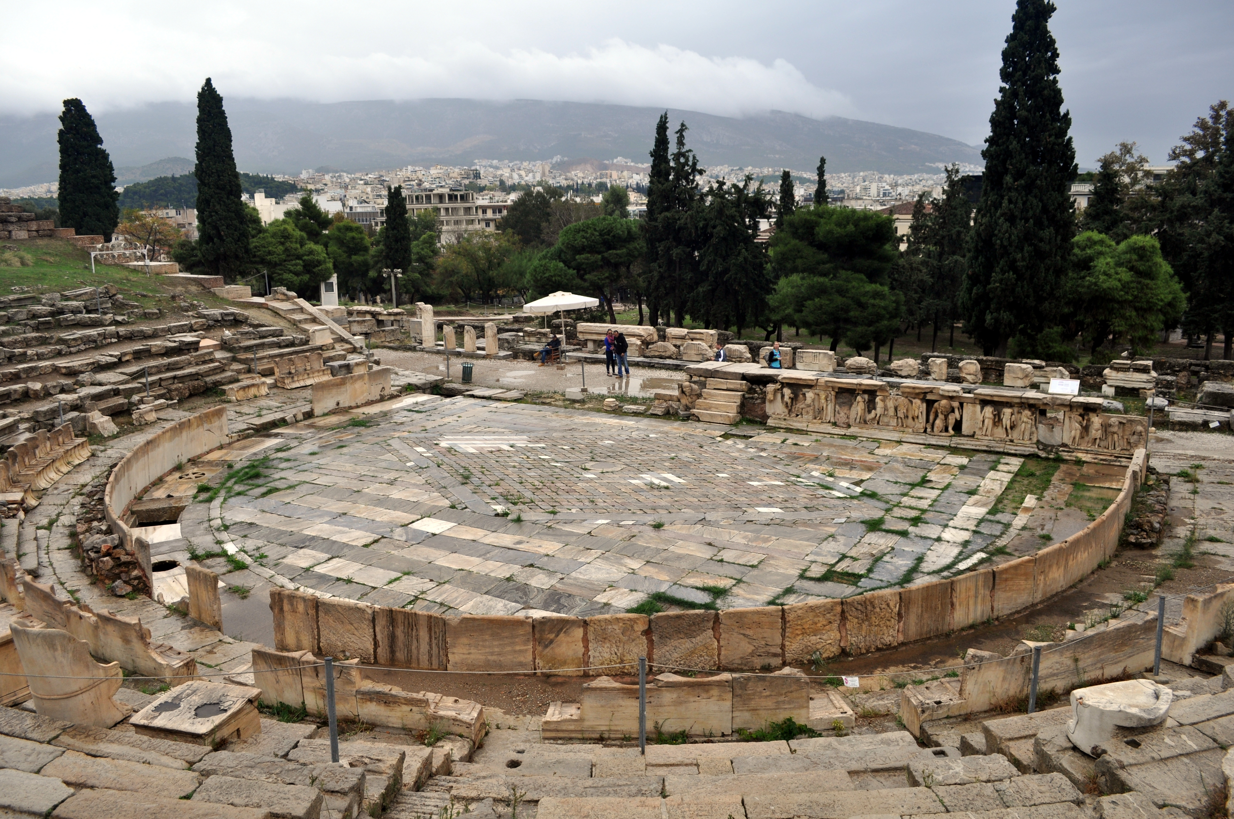 Theatre of Dionysus